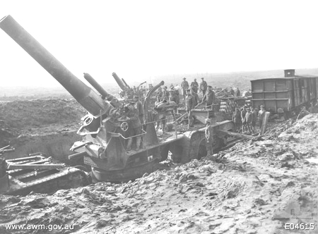 Western Front: Western Front (Belgium), Ypres Area. Unidentified soldiers, probably British, grouped around two 12 inch Mk III howitzers on Railway Hill used to support the Australian troops. The howitzer in the foreground is mounted on railway tracks, which allowed it to be moved to take up different positions along the railway line. Note a railcar on the right and piles of sandbags in the background. NOTE : This version of the photograph has brightness and contrast artificially increased to highlight details.